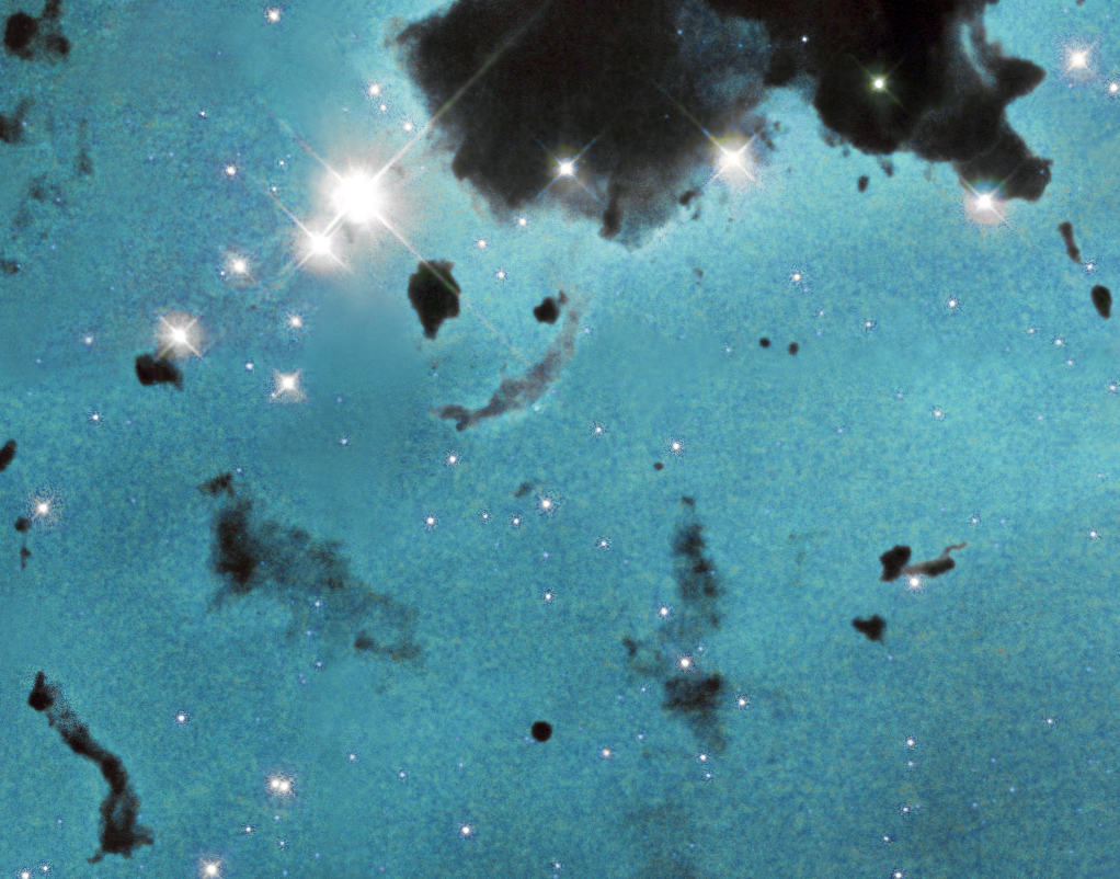 Central part of Crucis OB1 association, in IC 2944. Some Trackeray Globules are visible.